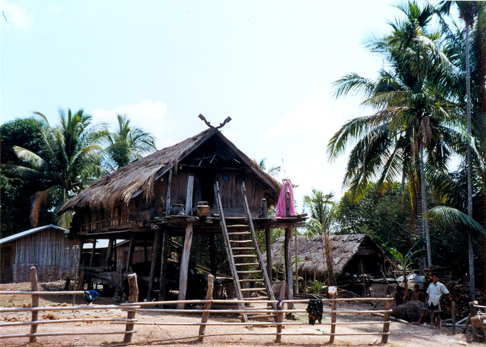 Stilt house, Attapeu province, Laos.